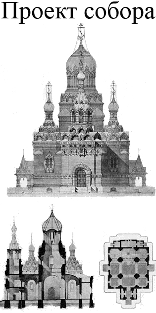 Project cathedral constructed in Samarkand, Termiz, Fergana